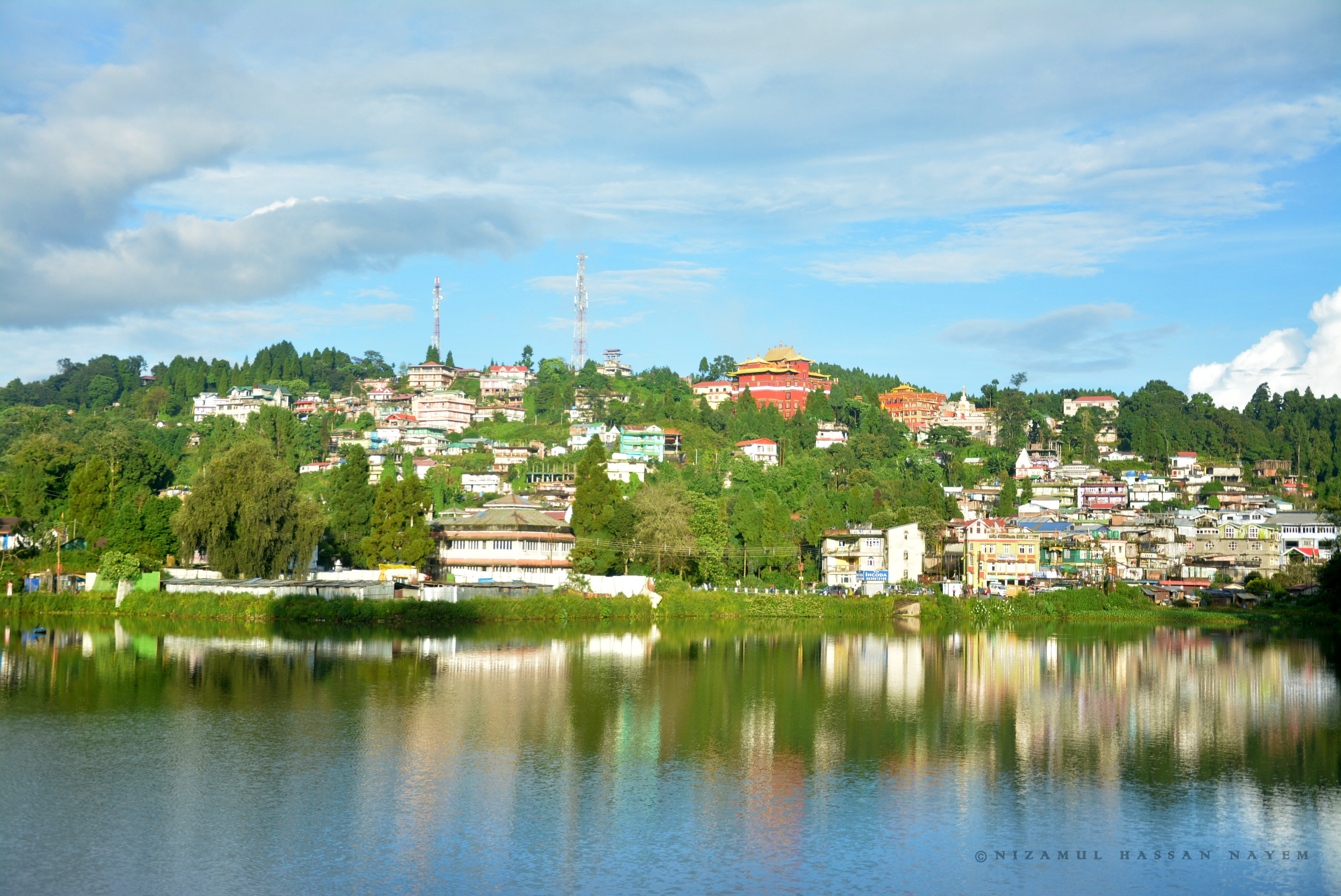 Mirik is a beautiful place, really enjoyable and a natural spot for tourist.